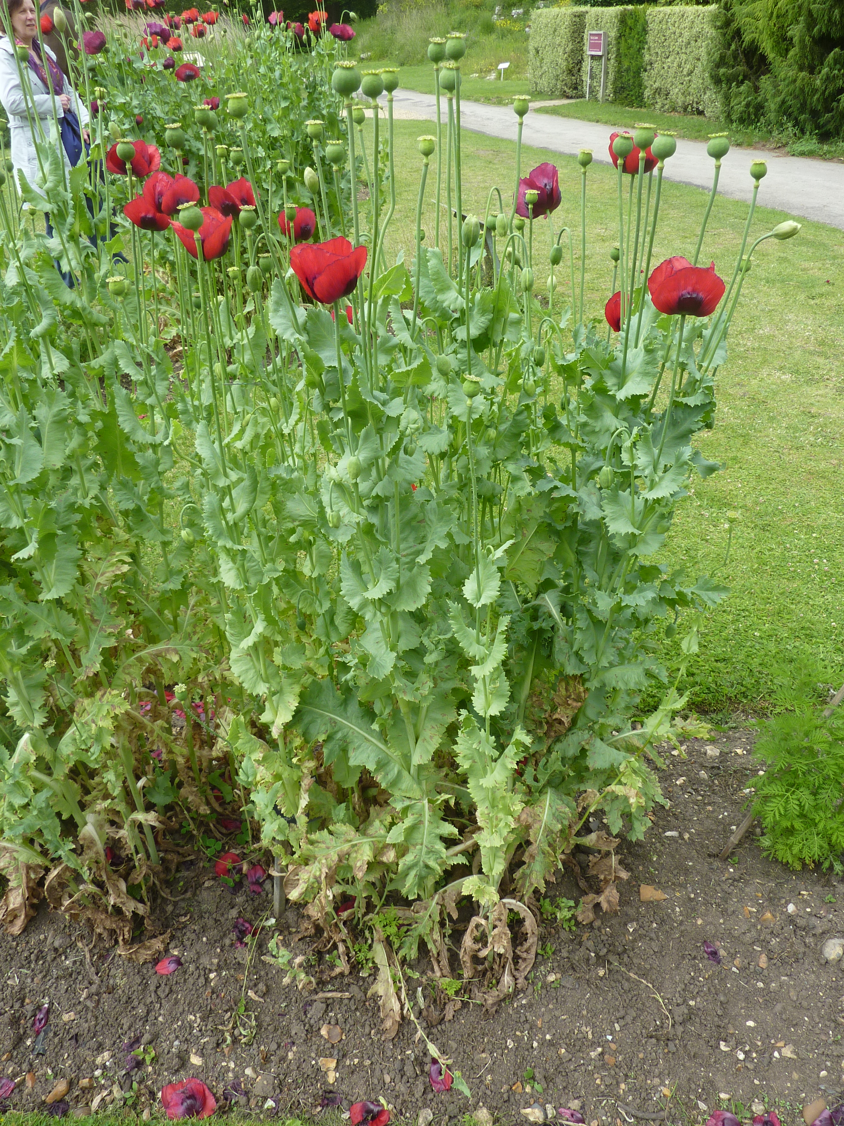 Taken in the Cambridge University Botanic Garden